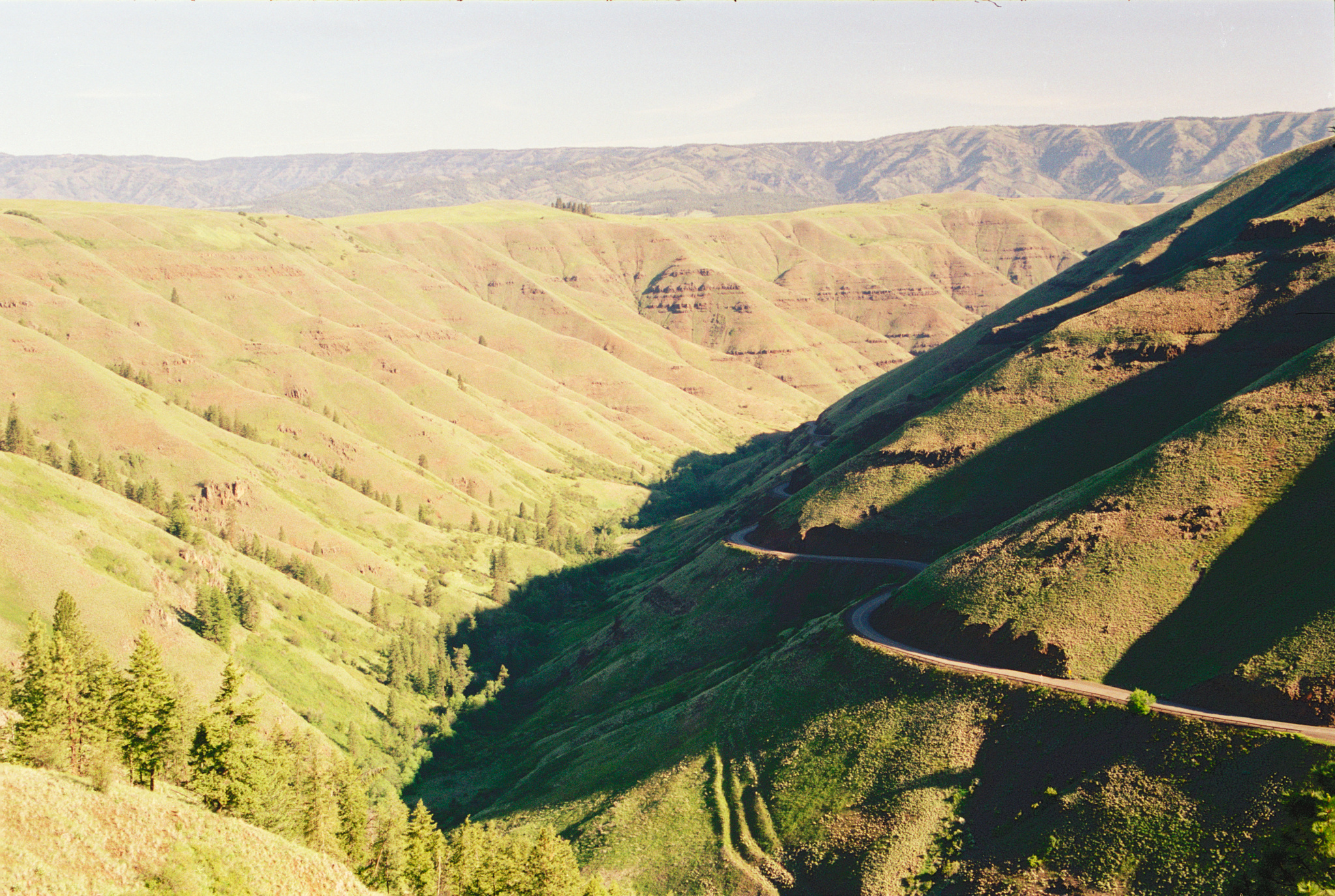 Detail of Oregon Route 3 near Josephs Canyon at the Washington-Oregon border.